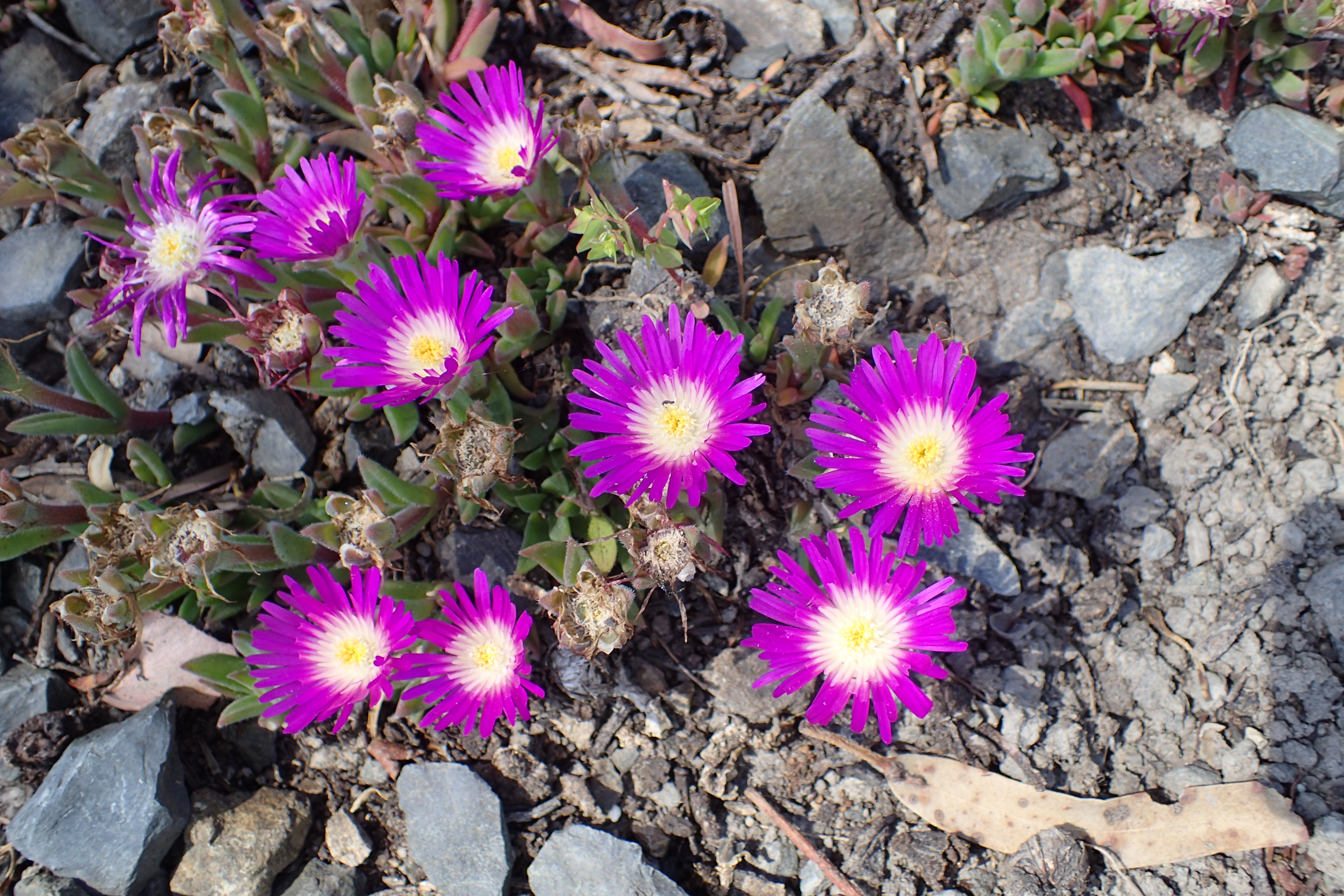 Delosperma sutherlandii in Dunedin Botanic Garden